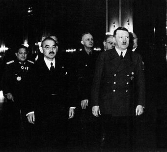 Japanese Foreign Minister Yōsuke Matsuoka (1880–1946, left) visits Adolf Hitler.